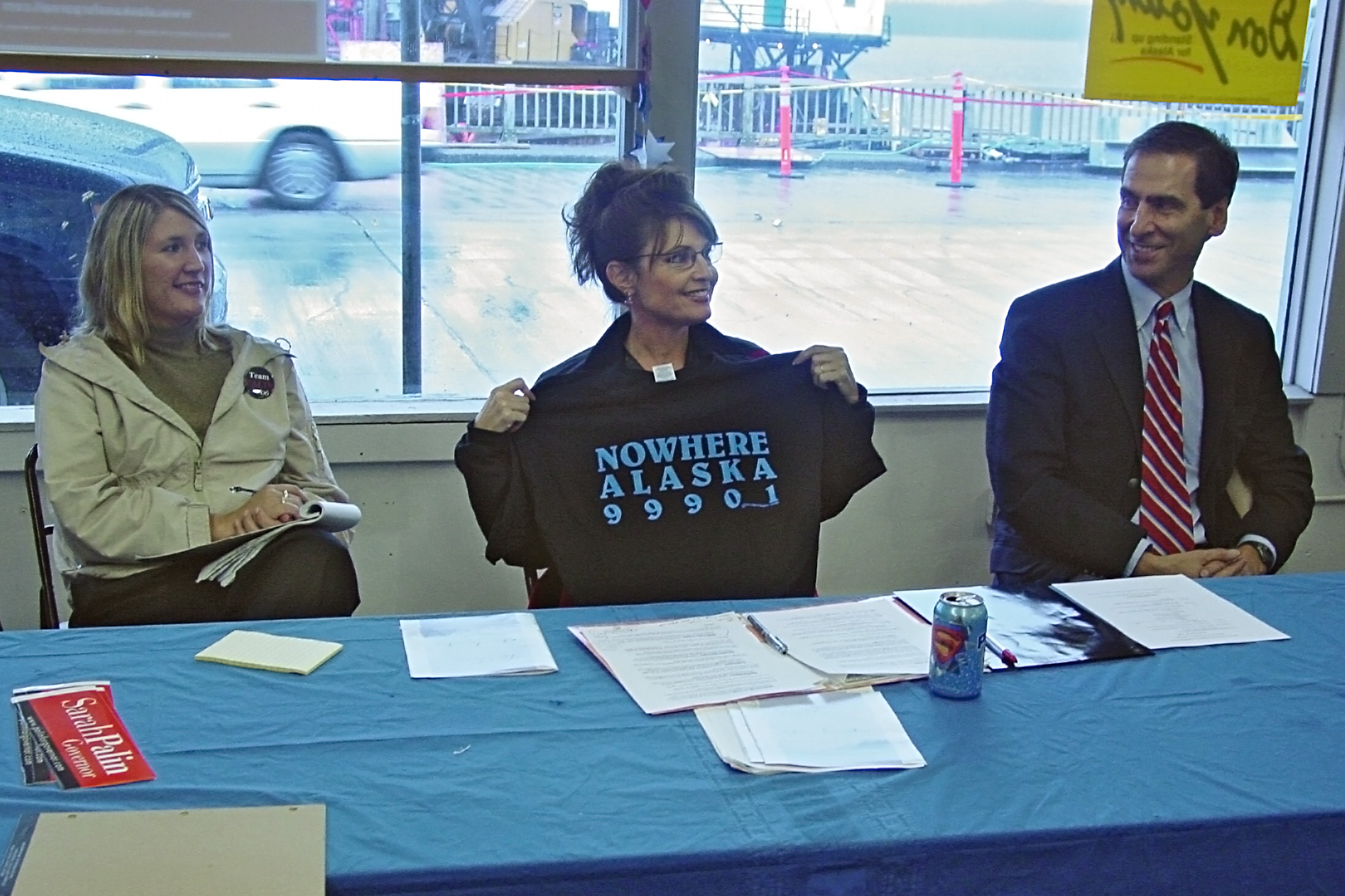 Sarah Palin holding a T-shirt related to the Gravina Island Bridge. Note: 99901 is a postal zip code for Ketchikan, Alaska where the bridge was to be built. On the left is Ivy Frye (implicated in troopergate); To the right is former Lt. Gov. Loren Leman. This image was taken at a gubernatorial campaign forum in Ketchikan, Alaska.